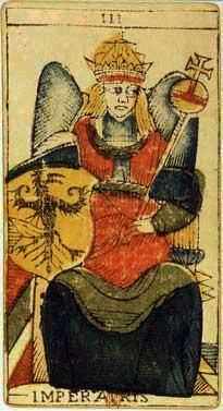 An original card from the tarot deck of Jean Dodal of Lyon, a classic Tarot of Marseilles deck which dates from 1701-1715.